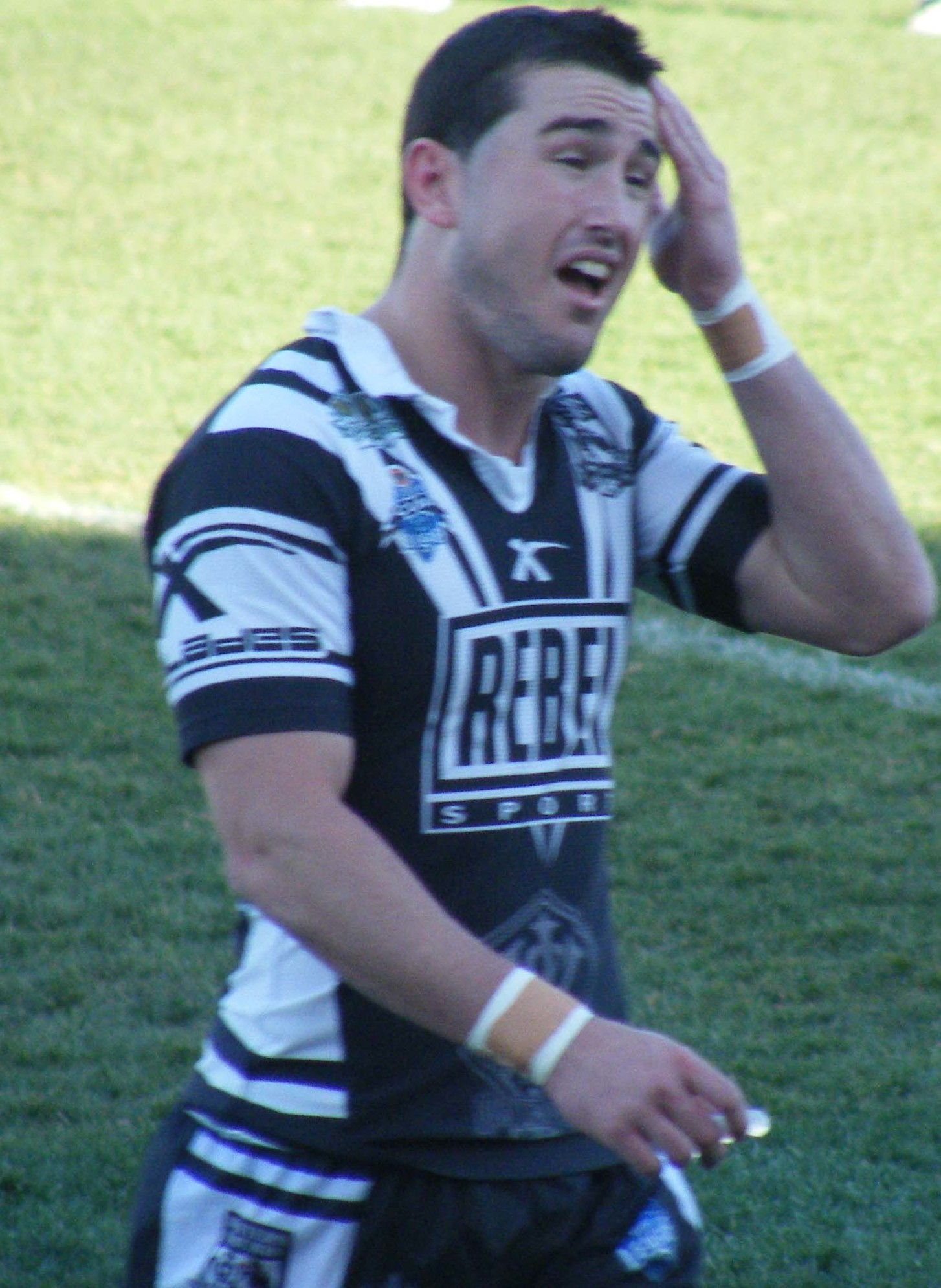 Wests winger Shannon McDonnell